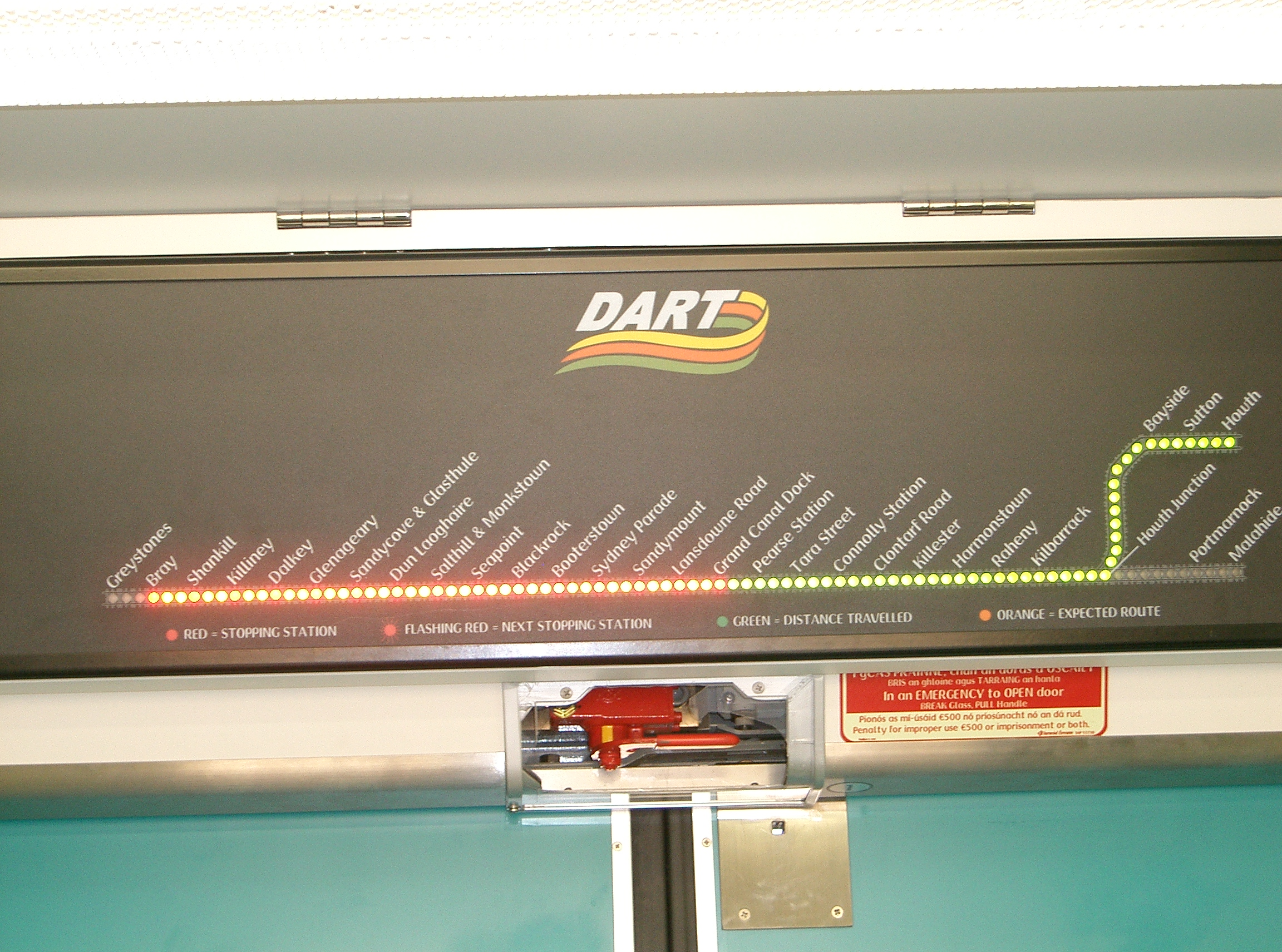 Some DART trains have these LED route describers. Green indicates the route which has already been travelled and orange is the route remaining. A solid red light means that the train will be stopping at that station while a flashing red light indicates the next stop.